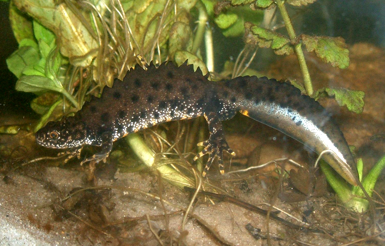 The Crested Newt (Triturus cristatus); male specimen in "mating dress" under water.